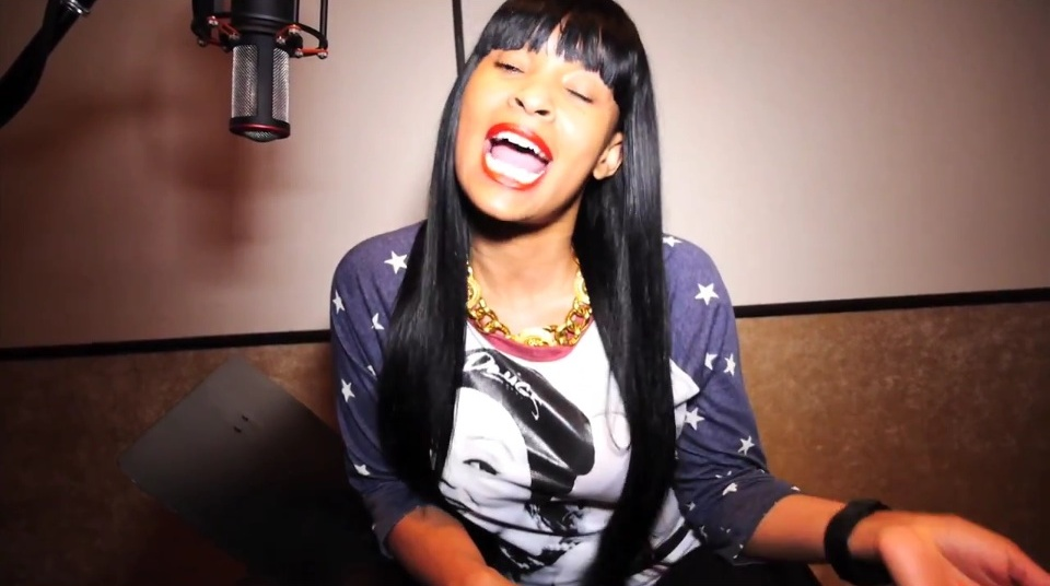 Tiffany Foxx from one of her interviews in 2013.